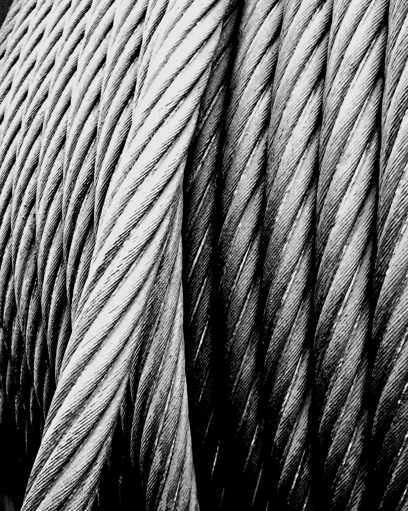 Steel wire of the German colliery "Zeche Zollern" headgear